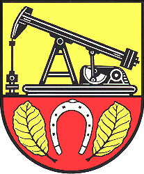 Coat of Arms of Steimbke